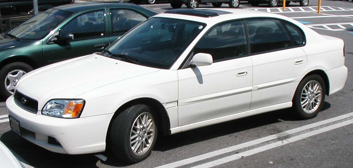 2003-2004 Subaru Legacy photographed in USA.